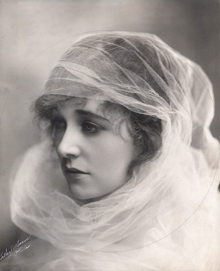 Ethel Clayton